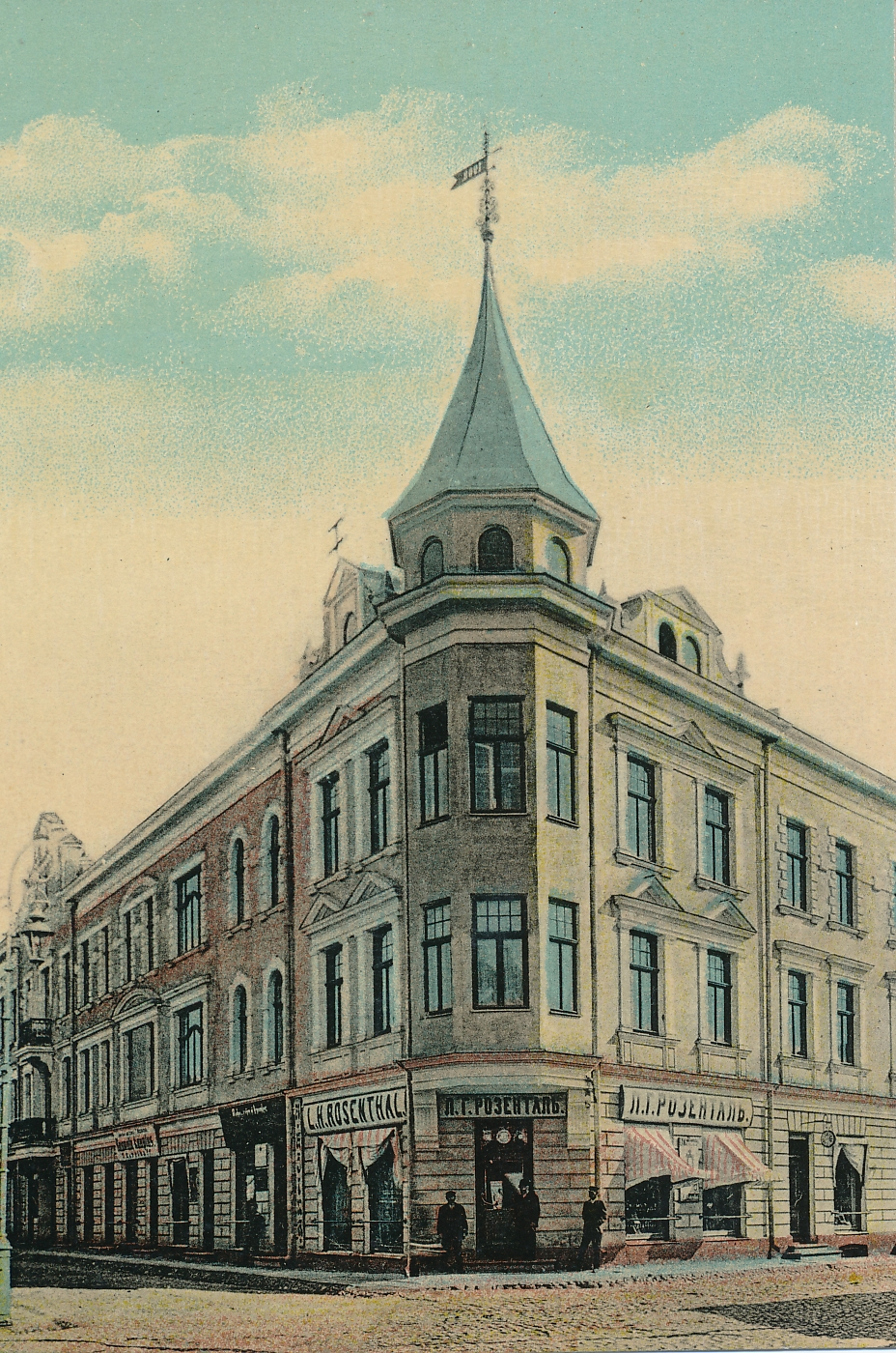 E. Pohl's house, Lossi street 26, Viljandi, 1912